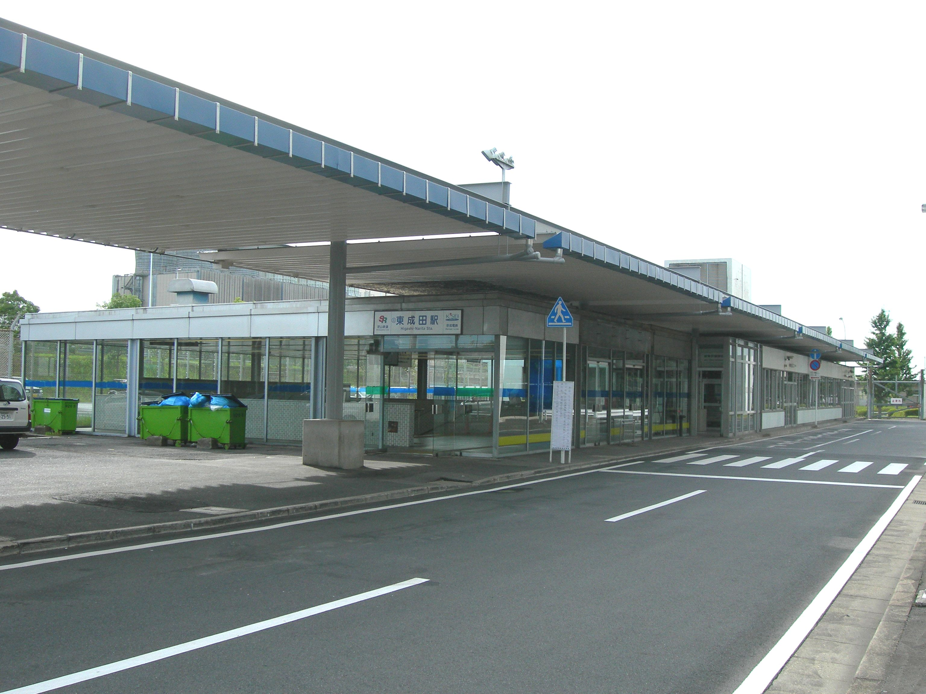 Higashi-Narita Station